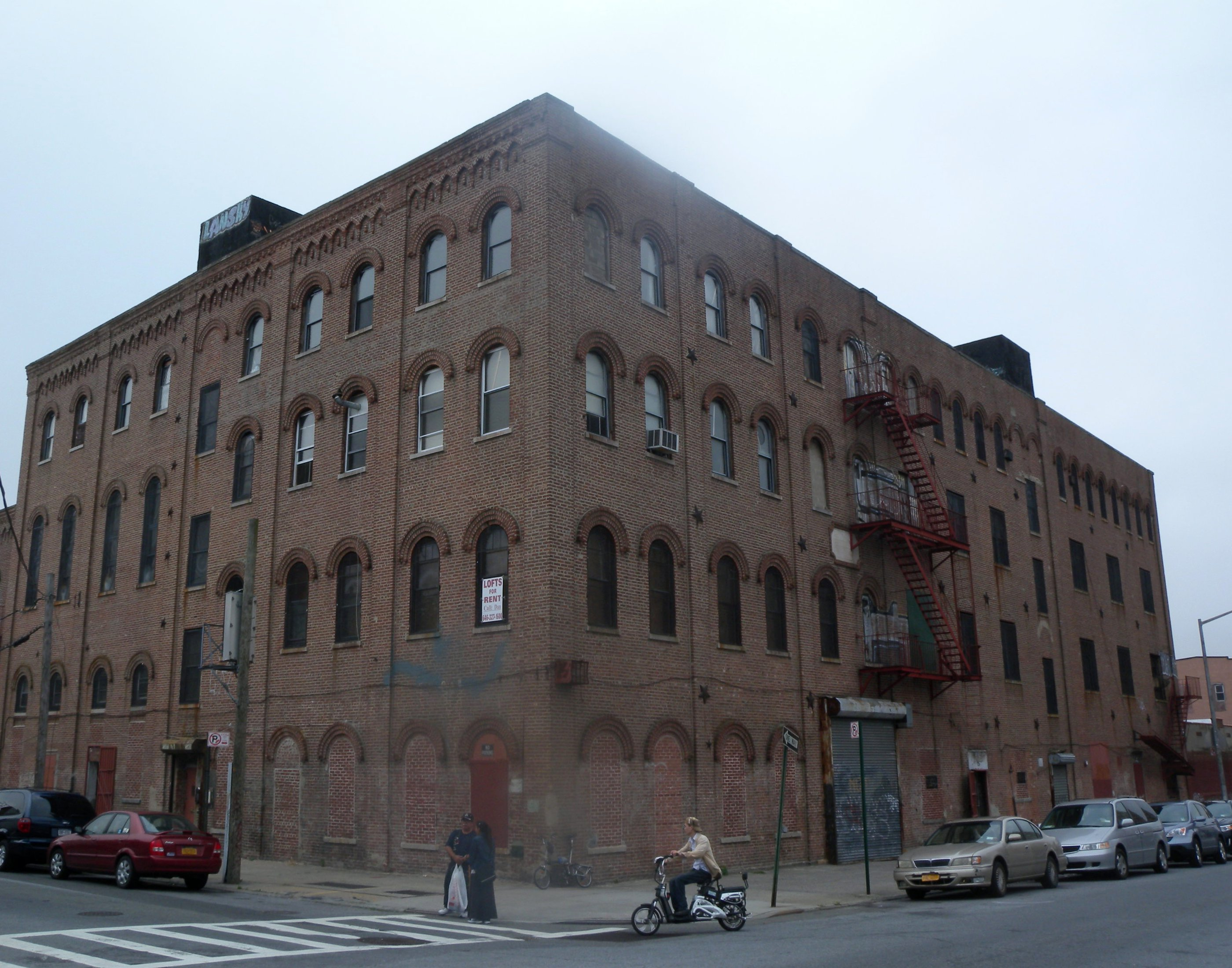 Looking west across Beaver and Belvedere Streets at Main Brewhouse of Ulmer Brewery on a cloudy midday.